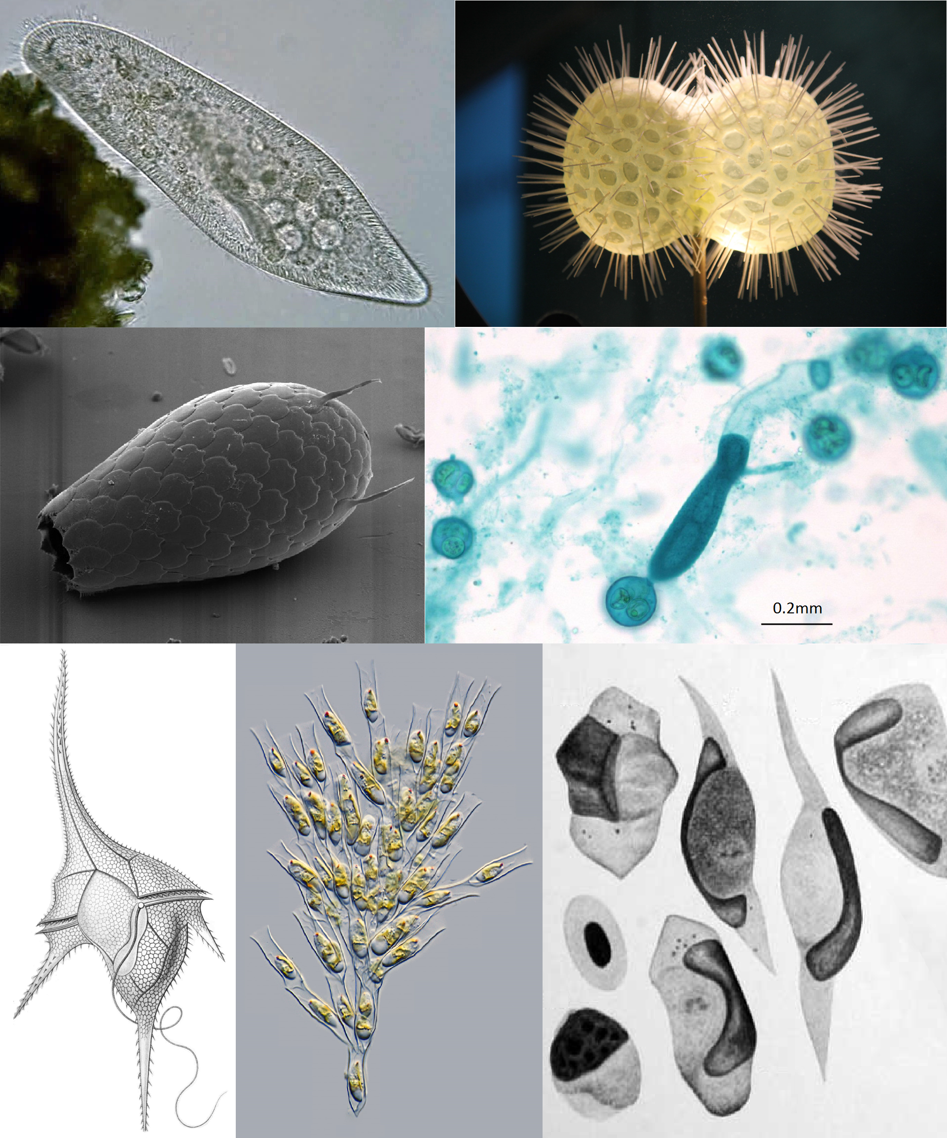 Composite image to illustrate the diversity of Harosa or SAR